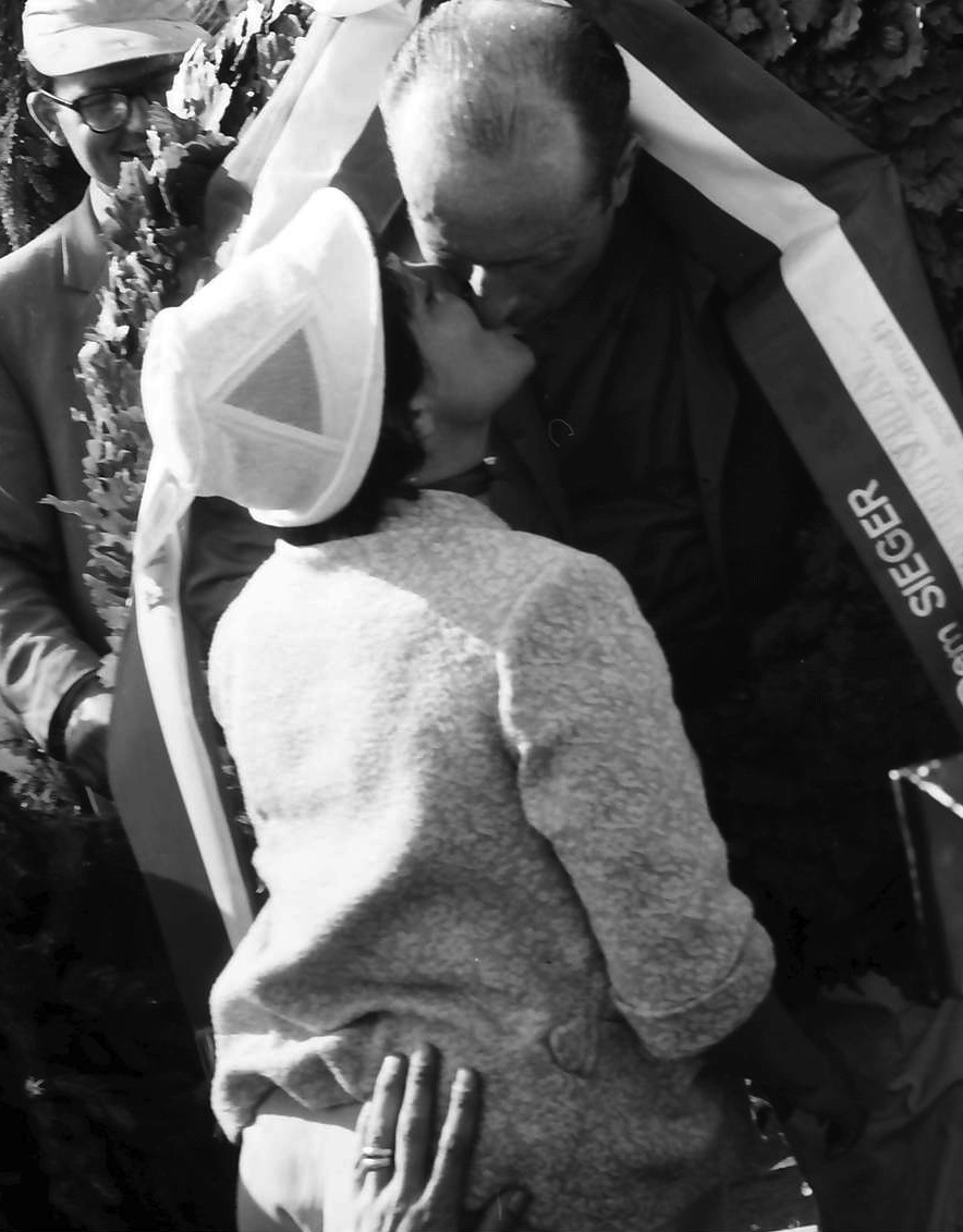 Race winner Juan Manuel Fangio is congratulated by his partner, Andrea Berruet, on the podium following the 1957 German Grand Prix, at the Nürburgring, West Germany.